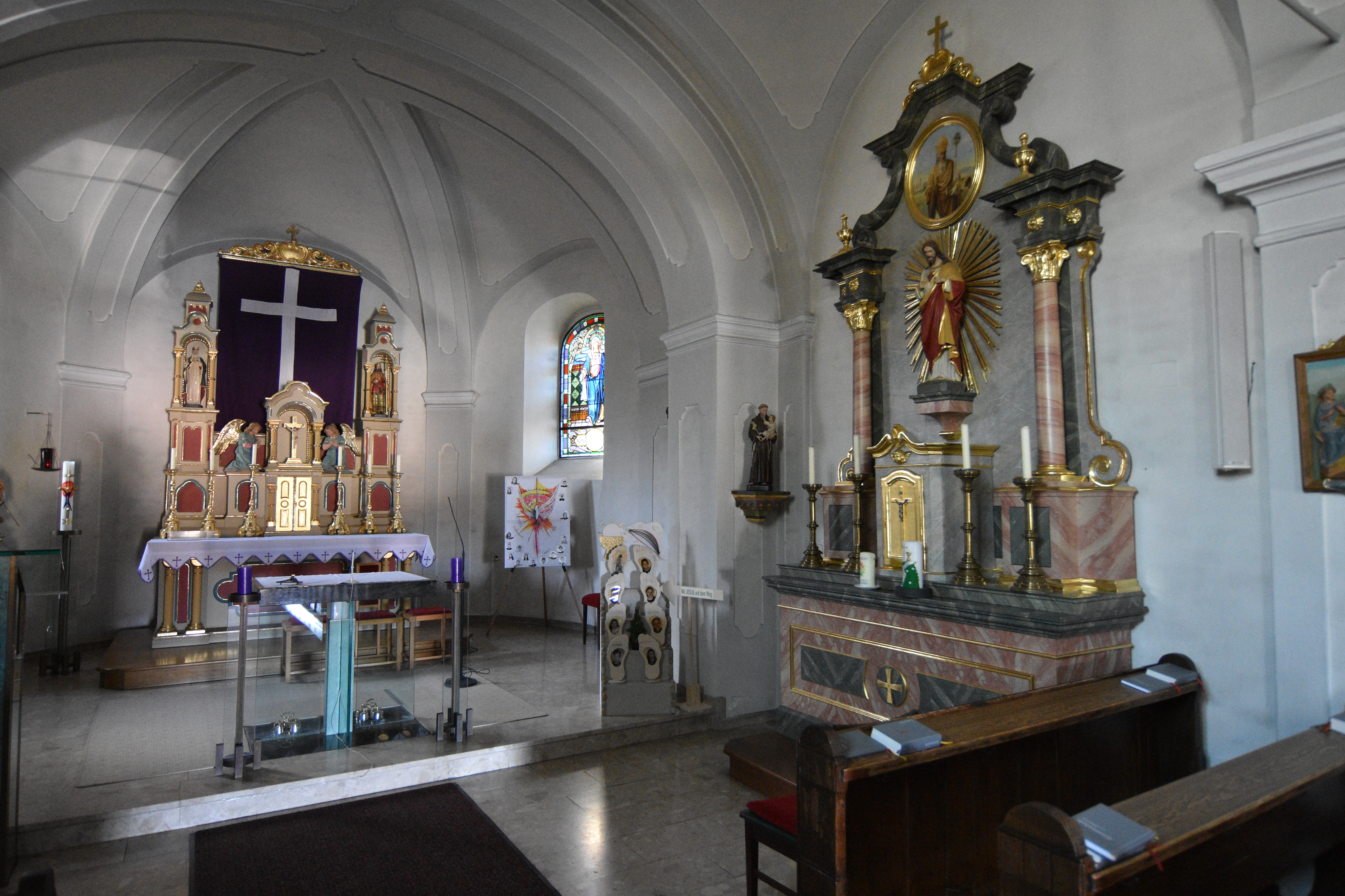 Church hl. Anna (Jabing) - Interior